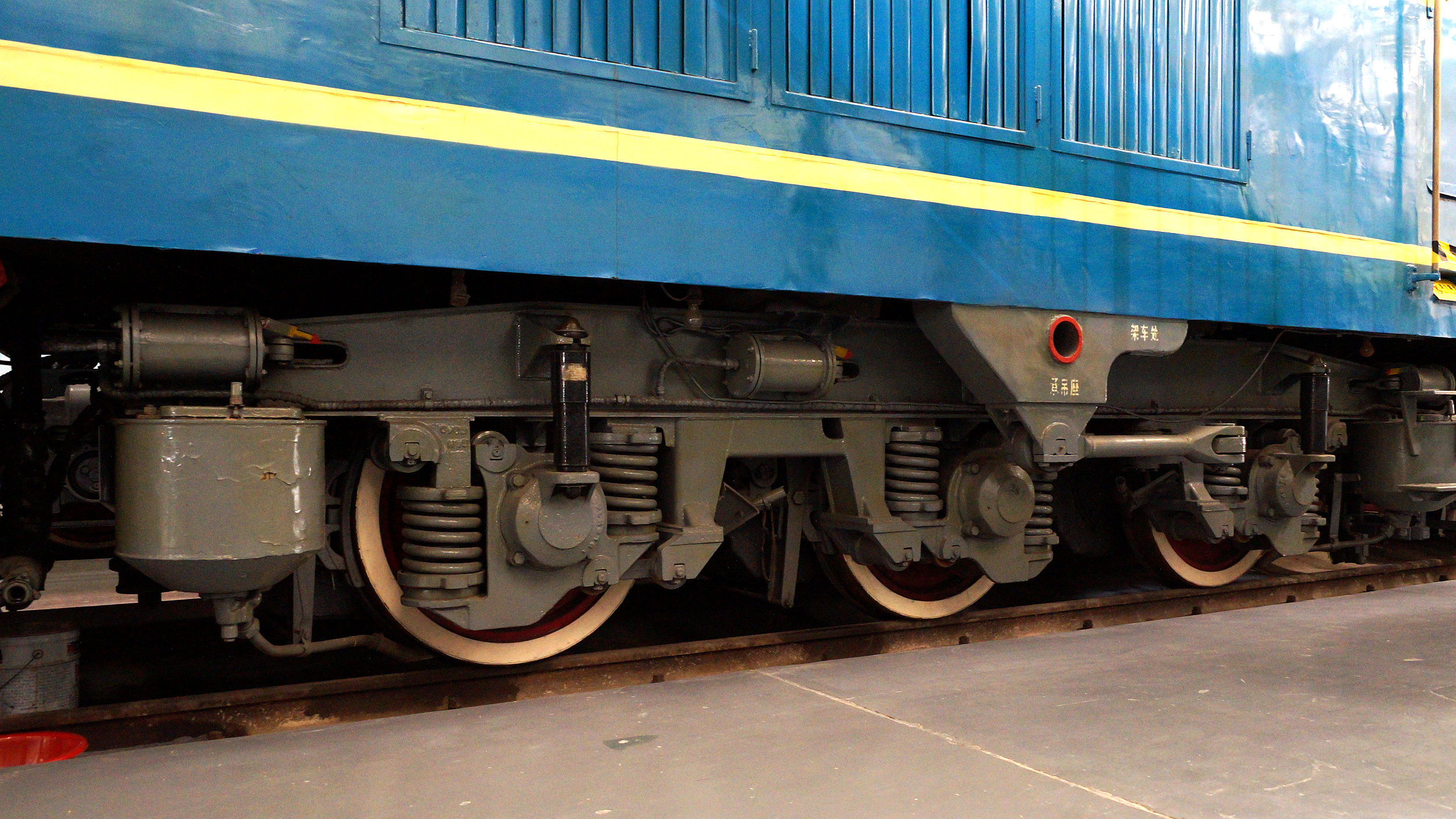 The bogie of China Railways DF4C 4040 diesel locomotive